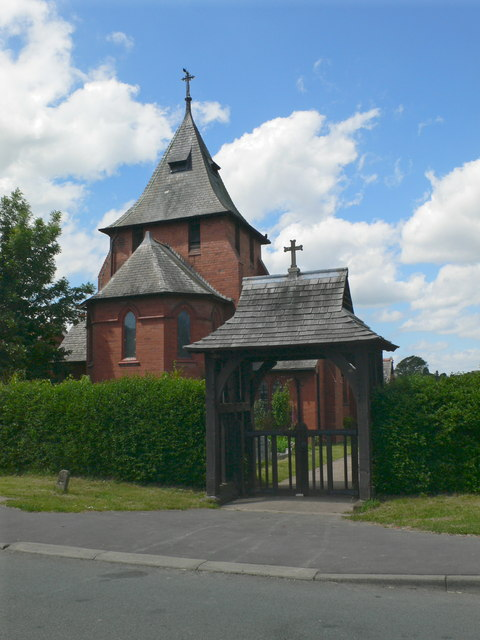 All Saints Church, Higher Kinnerton Higher Kinnerton is in the south-east of Flintshire, bordering Chester and Wrexham. All Saints Church is a red-brick building, built in 1893, is in the parish of Dodleston, which is in England.